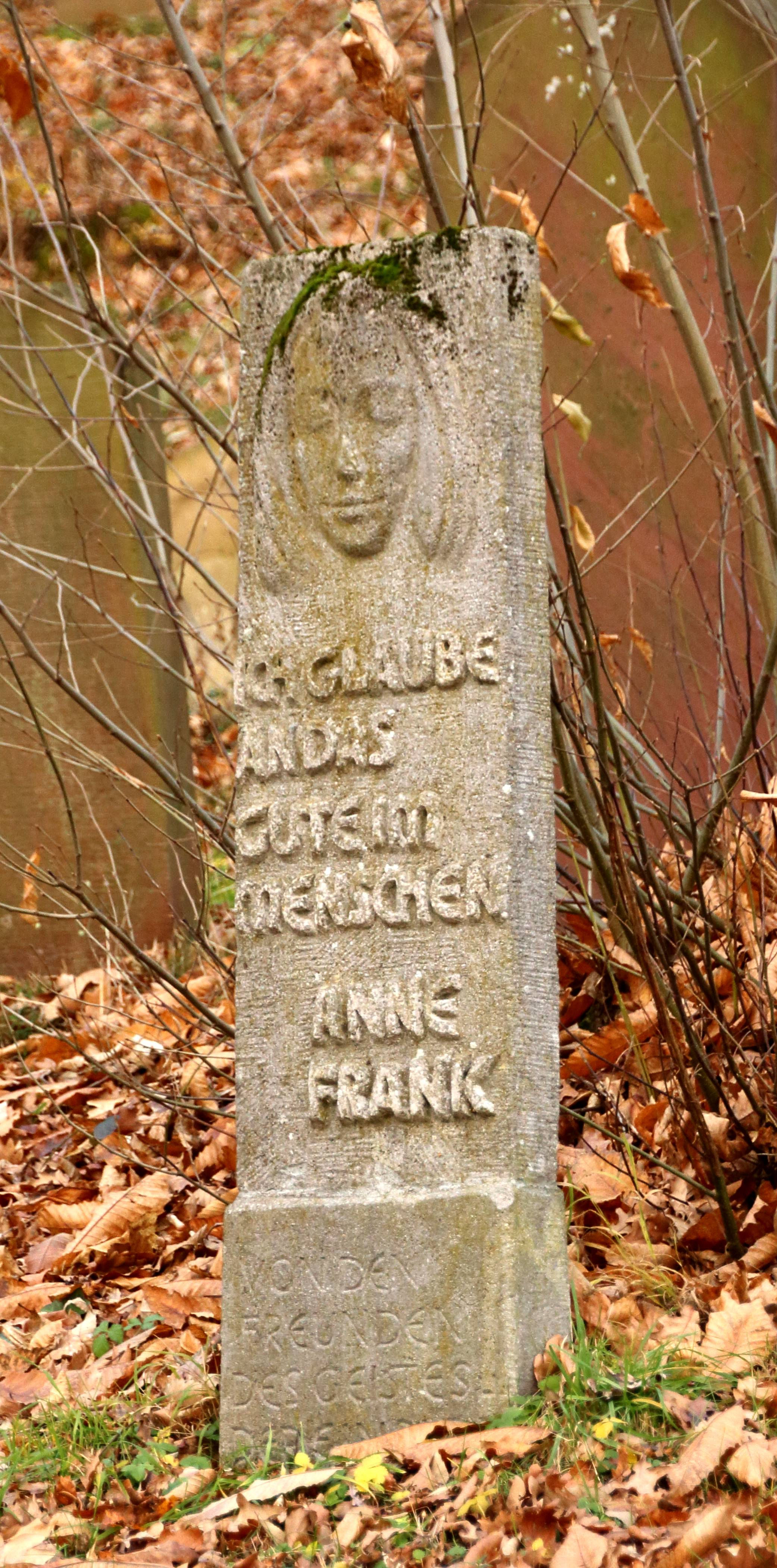 Anne Frank memorial by the sculptor Anton Haust around 1970. Jewish cemetery, Oestrich-Winkel, Hesse, Germany